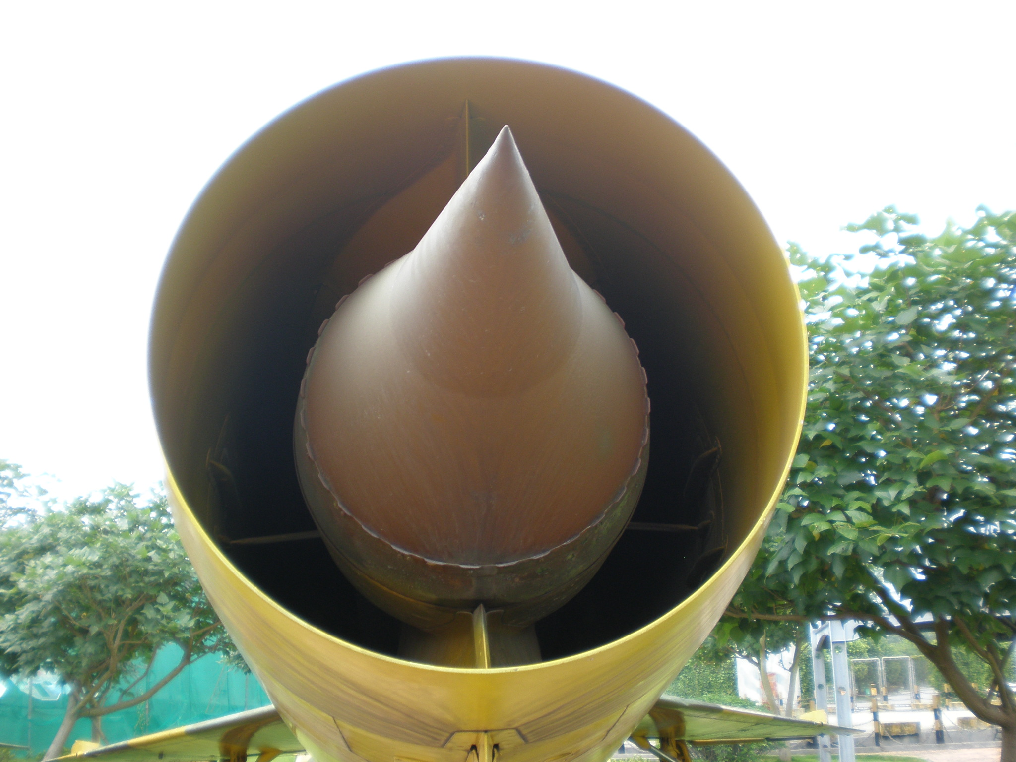 The nose and engine of a Chengdu J-7 on display at the Minsk World theme park in Shenzhen, PRC.